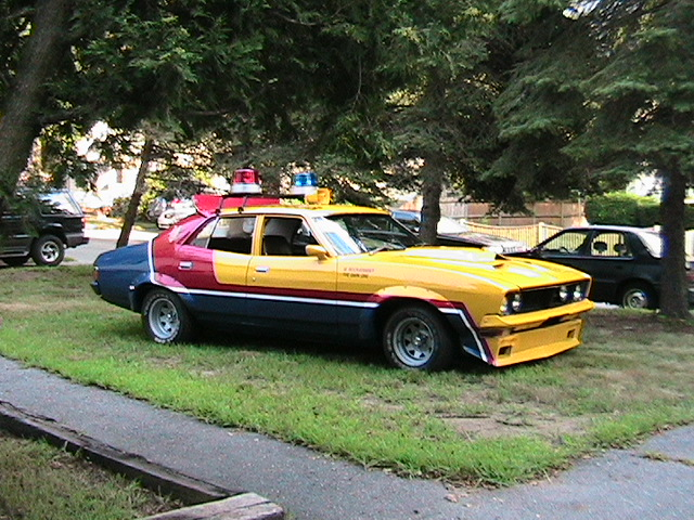 Original Mad Max Interceptor now resides in Massachusetts.